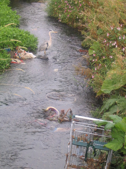 Spot the heron It is well camouflaged amongst the man-made debris in the Niddrie Burn, running through a housing estate in a poor area which is being regenerated. Note also the pink flowers of the invasive and sickly smelling Himalayan Balsam, which is dispersed by seed from explosive seed capsules.